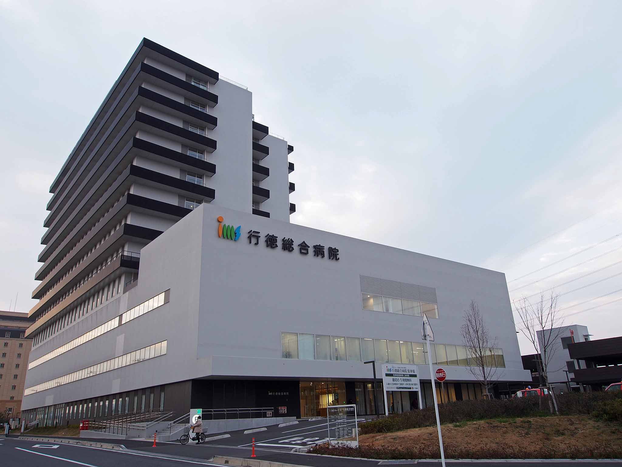 Gyotoku General Hospital, Located at Hon-Gyotoku, moved from Gyotoku-Ekimae since 2015.